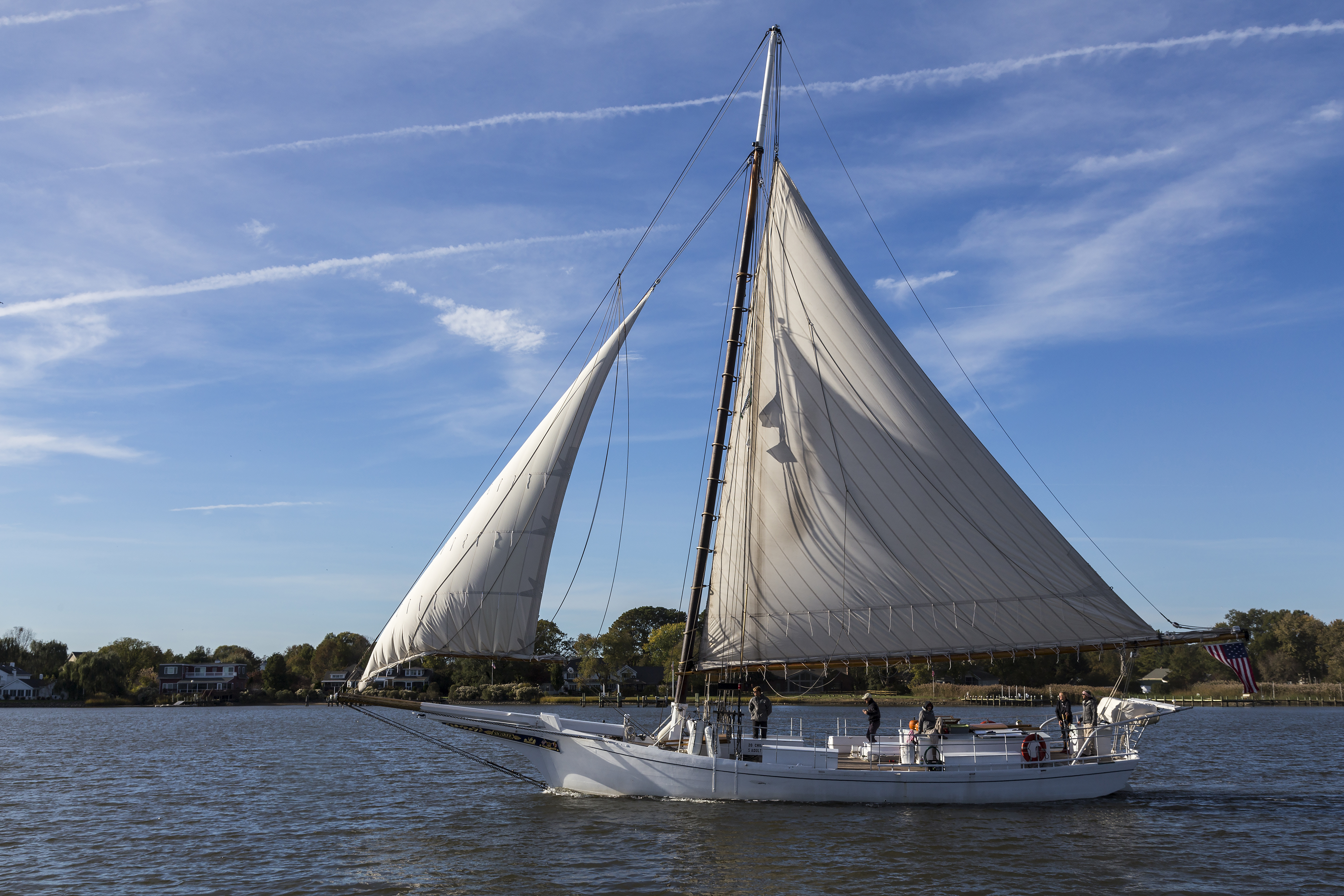 Skipjack Sigsbee under sail on the Chester River, Chestertown, Maryland, USA